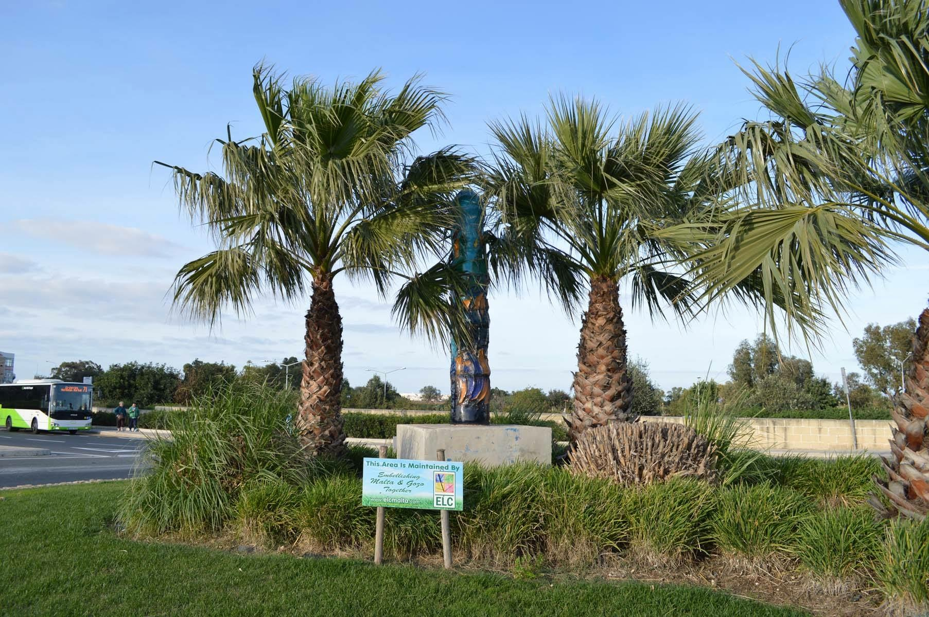 Colonna Mediterranea - Phallic monument Luqa, Malta